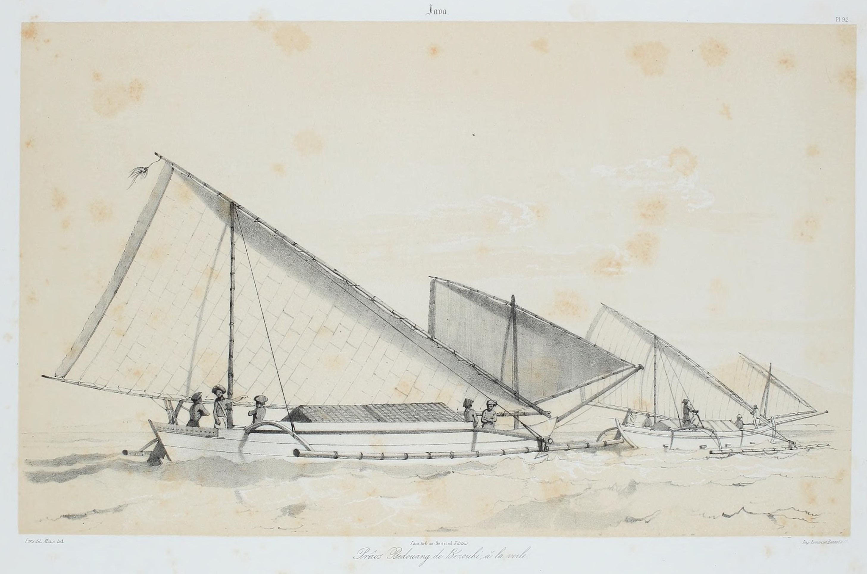 Two type of prahu paduwang (bedouang) sailing in the sea. One has conventional ends, the other has bifid ends.